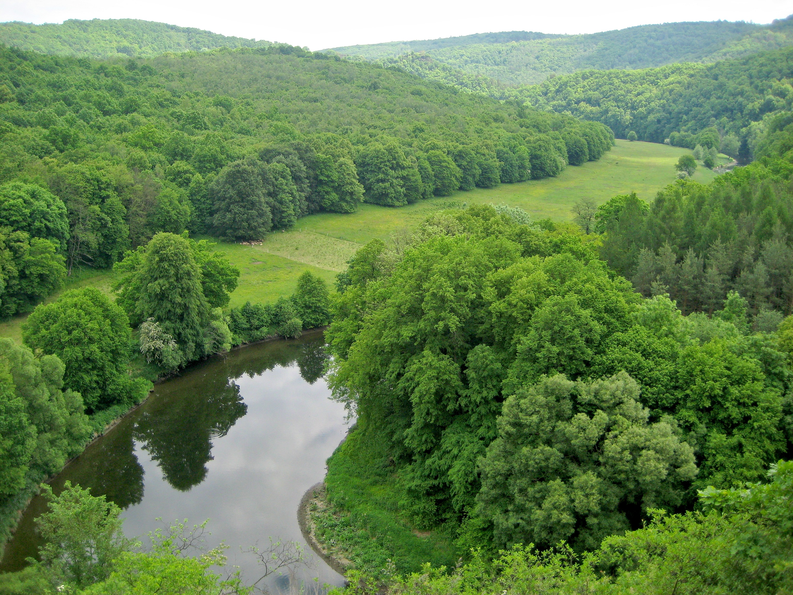 Thaya, Thayatal National Park